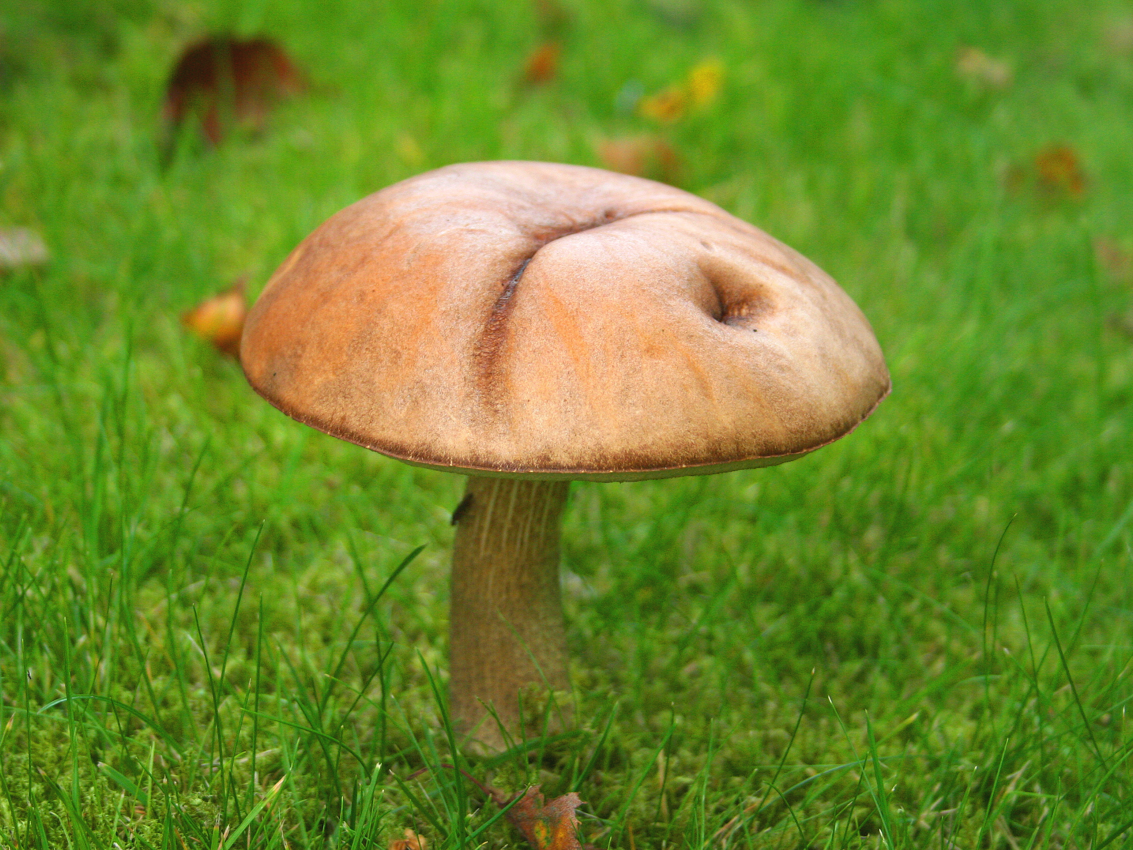 Birch bolete, Mons, Belgium